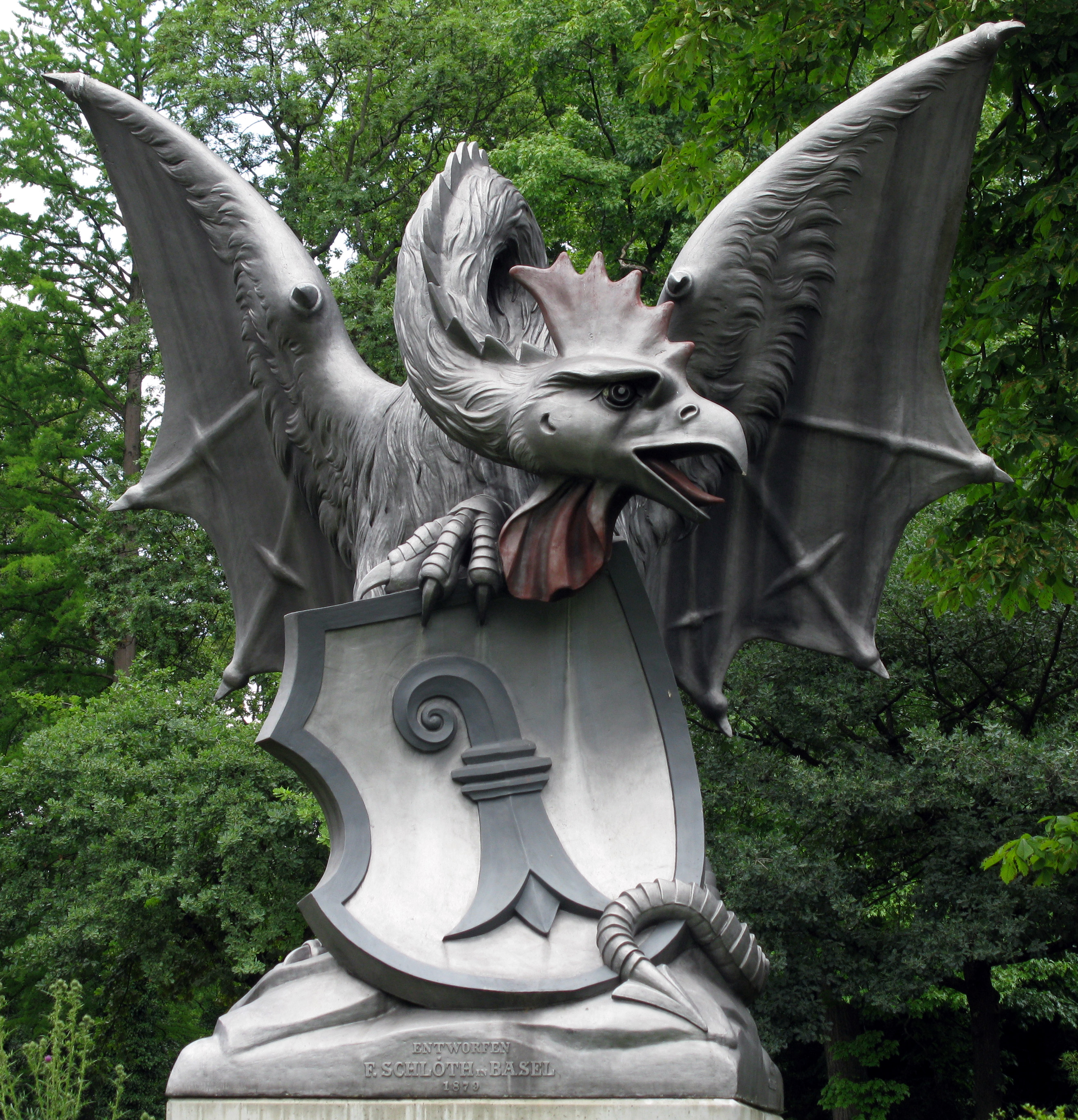 Basilisk